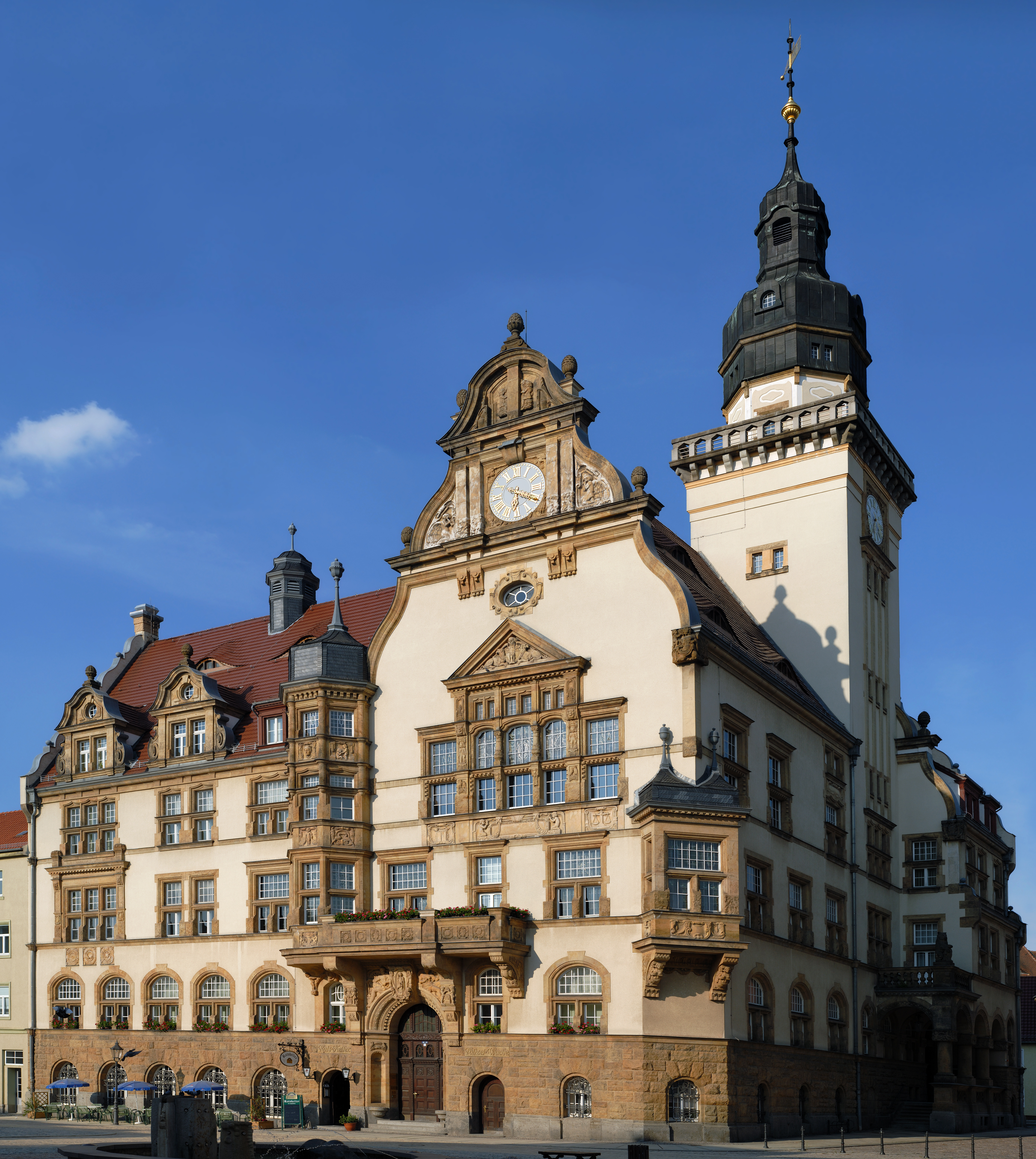 This image shows the town hall in Werdau, Germany. It is an eleven segment panoramic image.